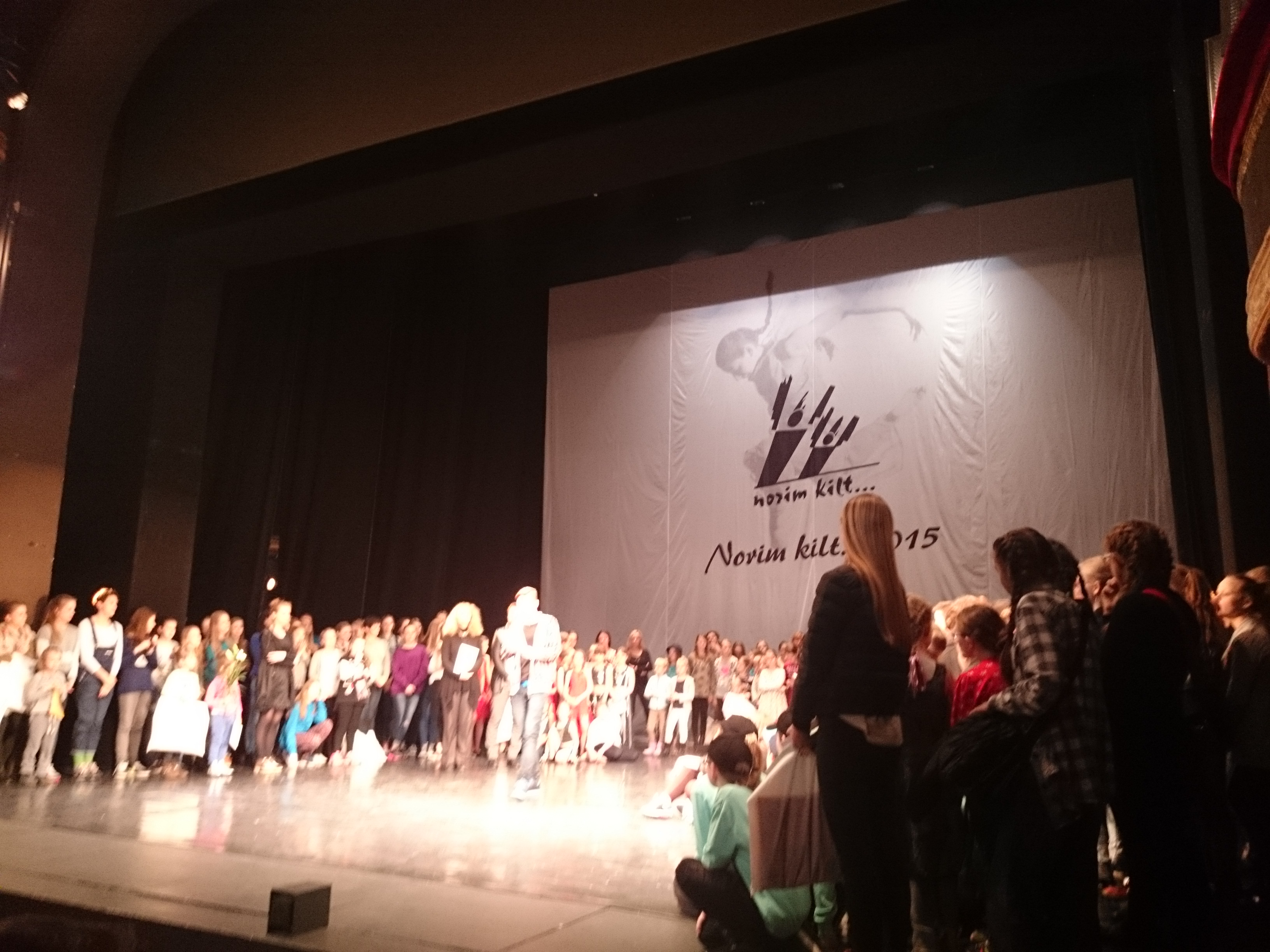 Norim kilt